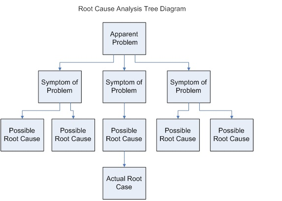 Tree diagram illustrating that root cause often not apparent until you ask why several times